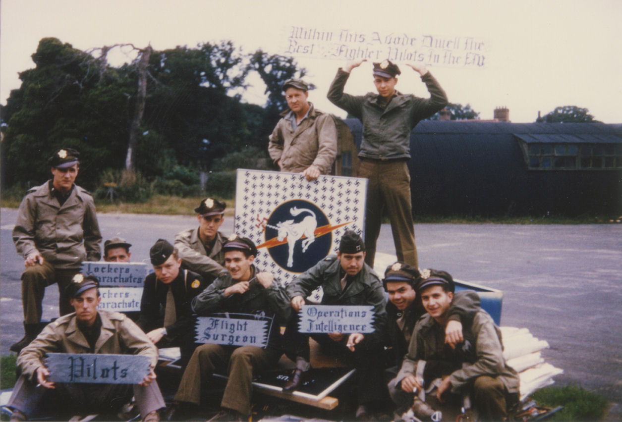 Personnel of the 359th Fighter Group with the insignia of the 370th Fighter Squadron and signage that has been taken down at East Wretham. Caption on reverse: '359th FG Photos Description: #58 personnel pose w/ signage after it was torn down. Holding sign over his head Dick Straub, John Benton (S2) holding intelligence sign, 2nd from right is James K. Lovett behind locker sign is Berg, to left of locker sign is John F. McAlevey.'